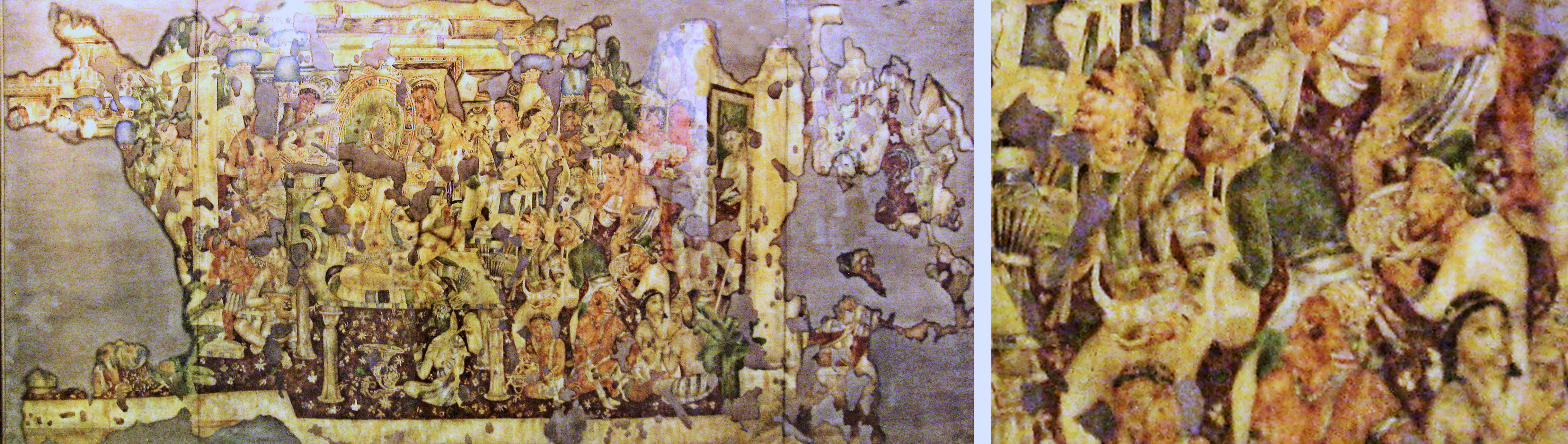 Ajanta Cave 1 first frescoe to the right of the entrance with three foreigners detail